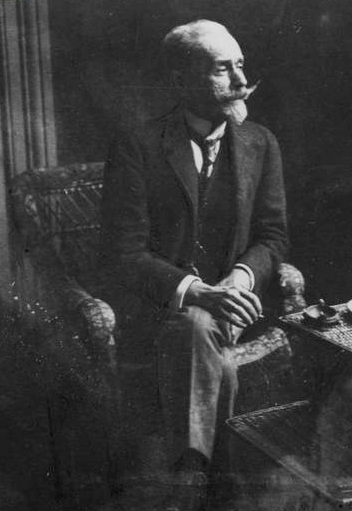 Portrait of Władysław Łoziński (1843 - 1913), Polish writer and politician.